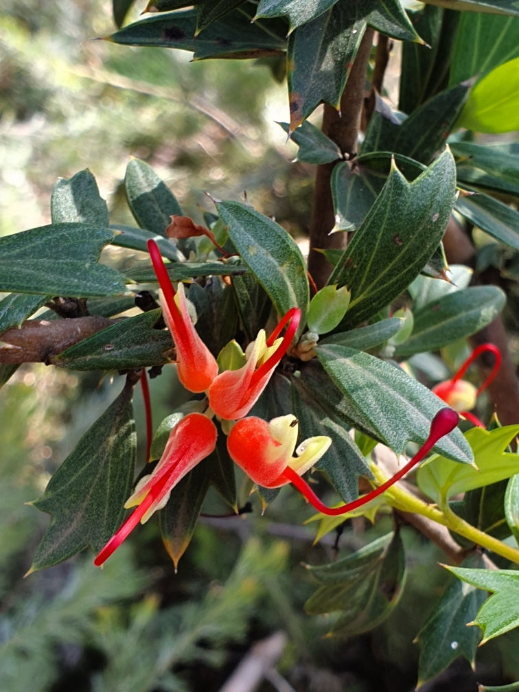 Grevillea tripartita subsp. macrostylis flower and foliage